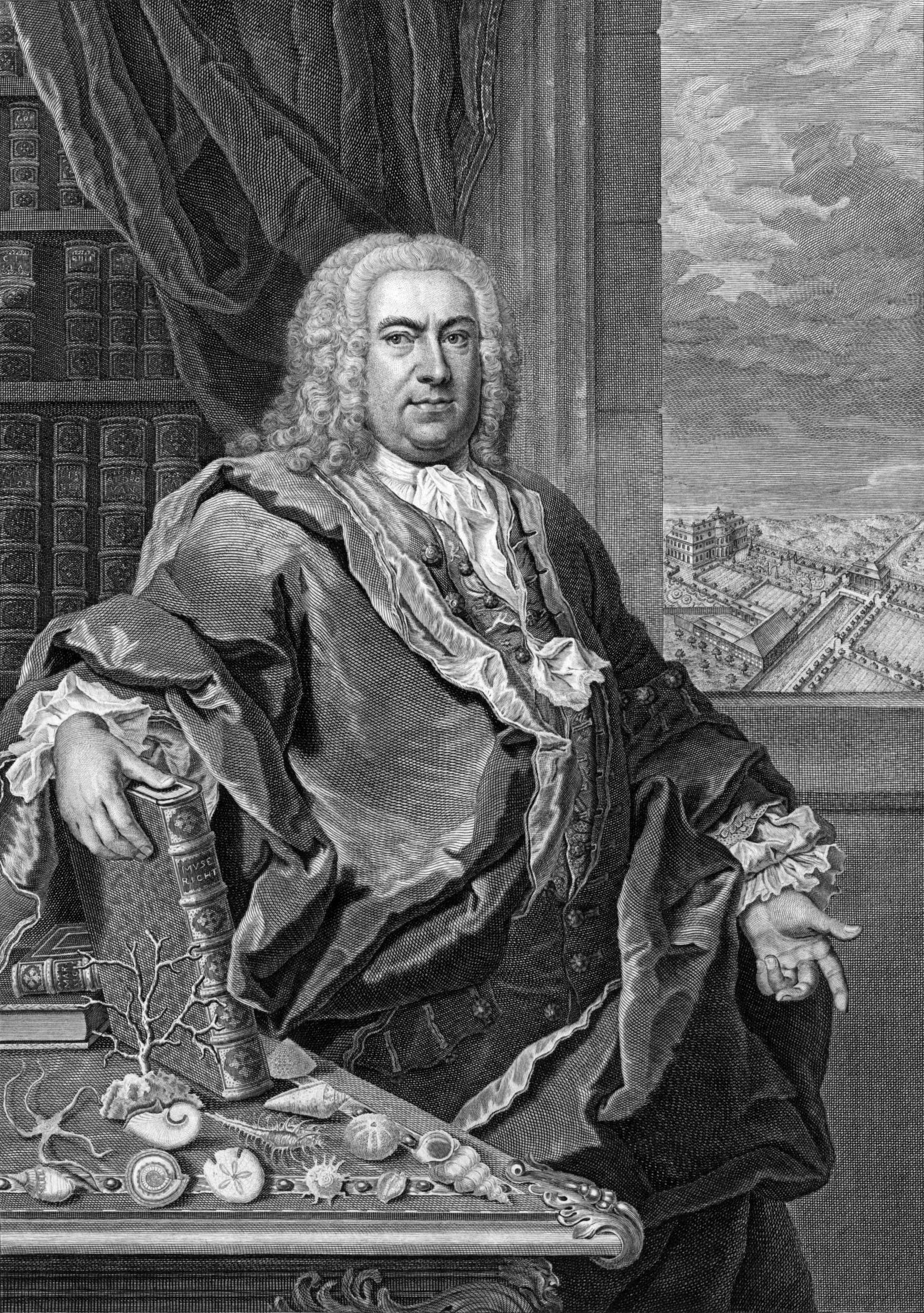 Depicted person: Johann Christoph Richter